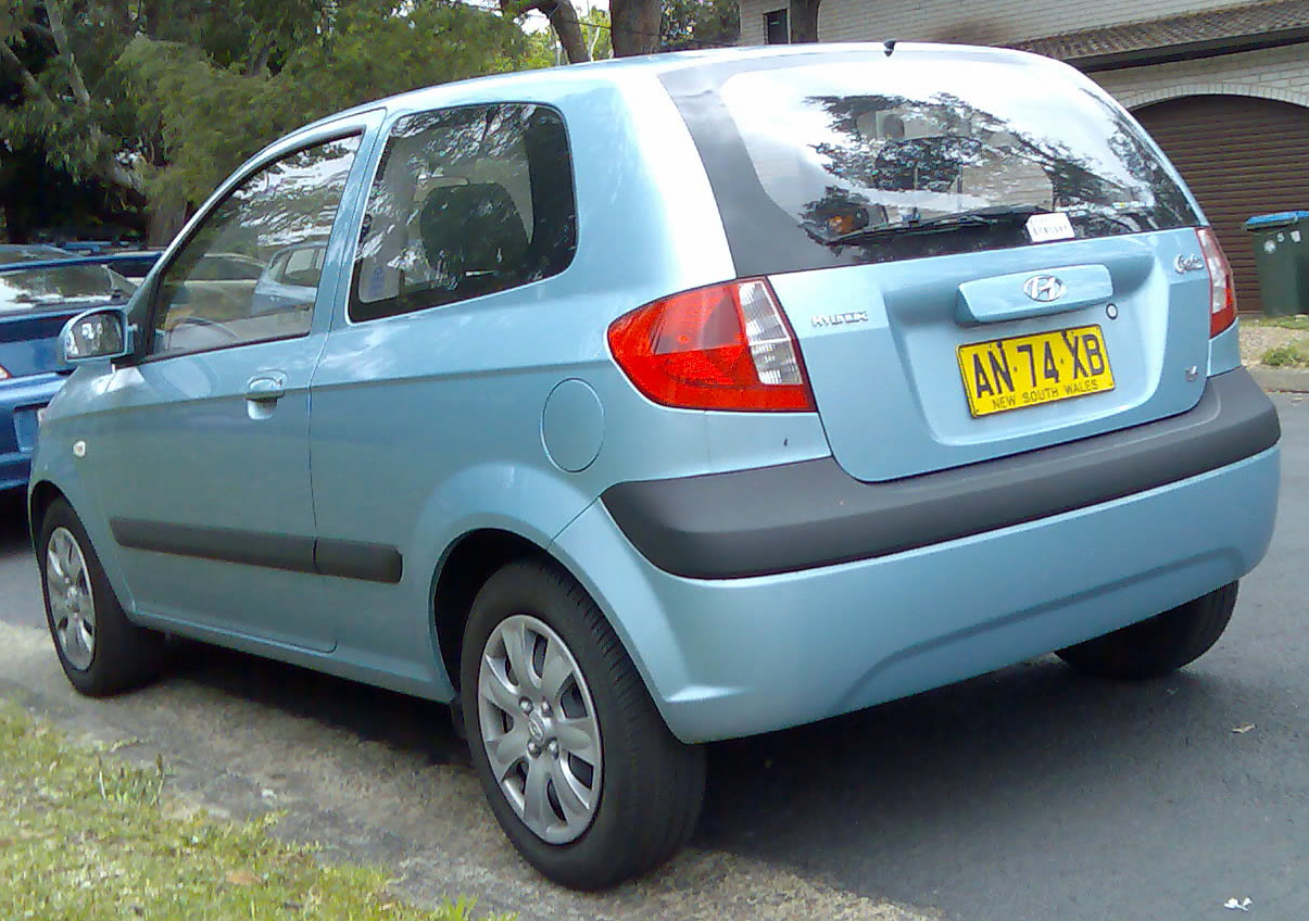 2006 Hyundai Getz (TB MY06) 1.6 3-door hatchback. Photographed in New South Wales, Australia.